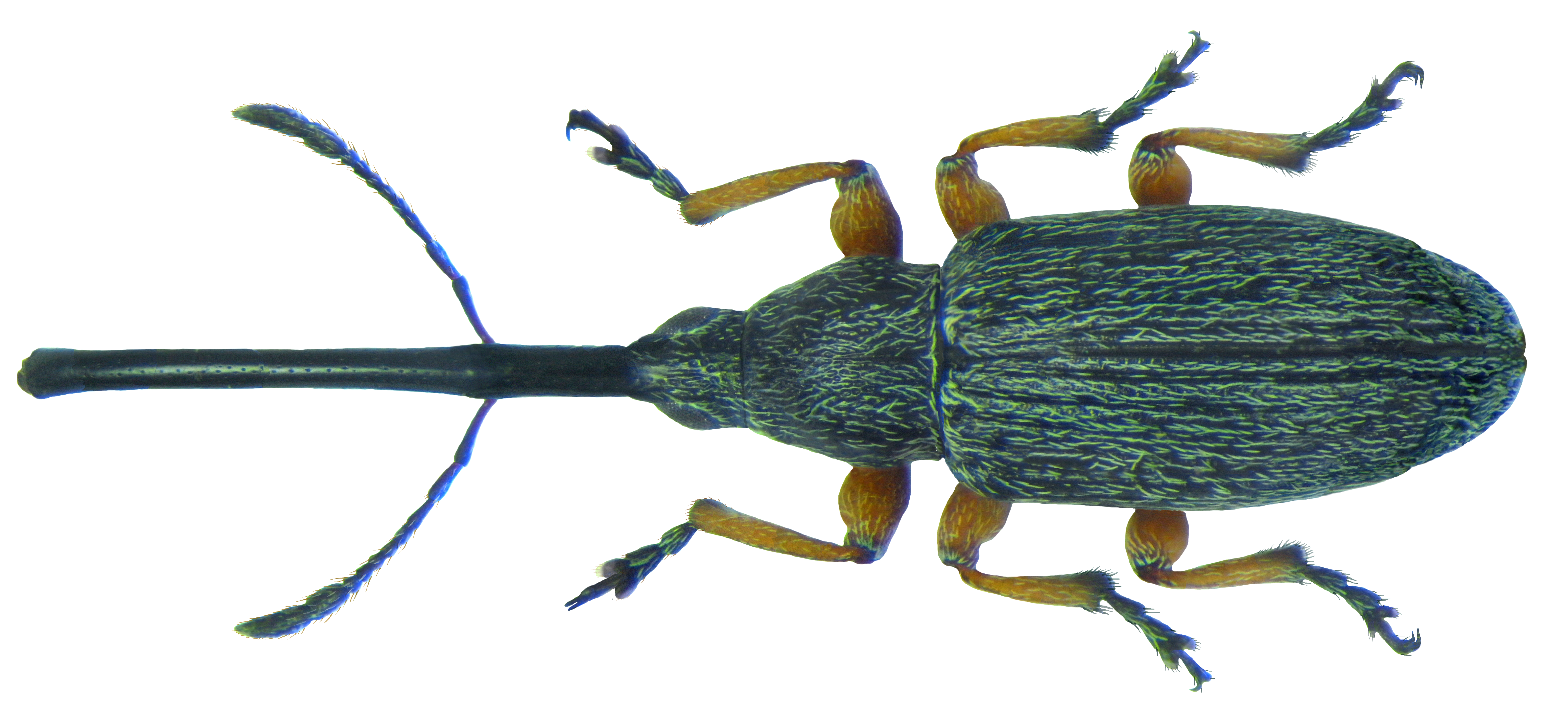 Family: Apionidae Size: 2,4-3,4 mm Origin: Middle East and Central Asia, Eastern and Southeastern Europe, north of Italy, southern Switzerland, Slovakia, places in Austria, introduced into North America Ecology: Larval development in the seeds of Althaea rosea Location: Switzerland, Graubünden, Ilanz leg.det. U.Schmidt, 10.VII.2004 Photo: U.Schmidt, 2012